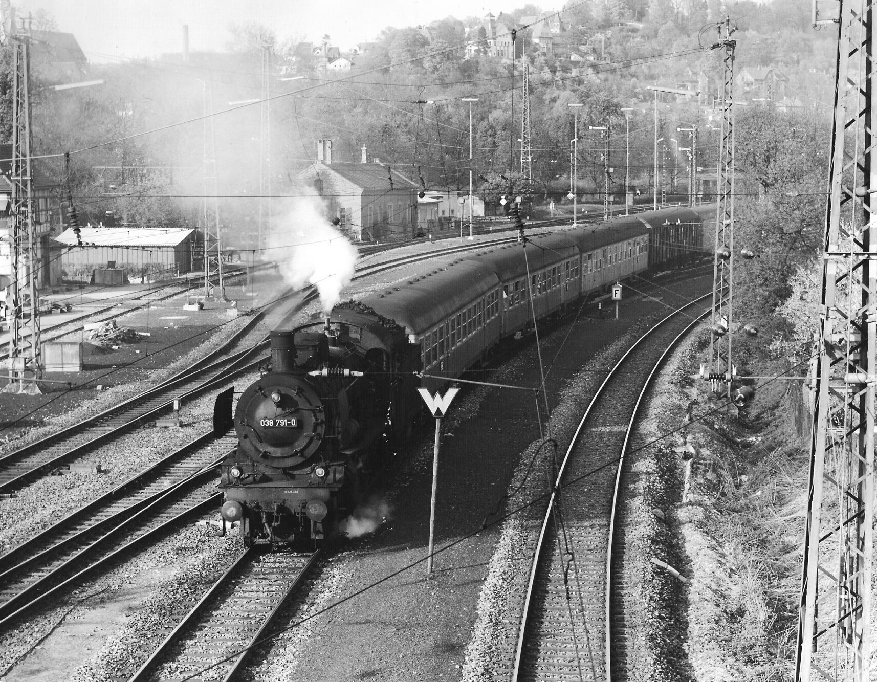 Train with steam locomotive 038 791-0 leaving Tuebingen Hbf for Sigmaringen